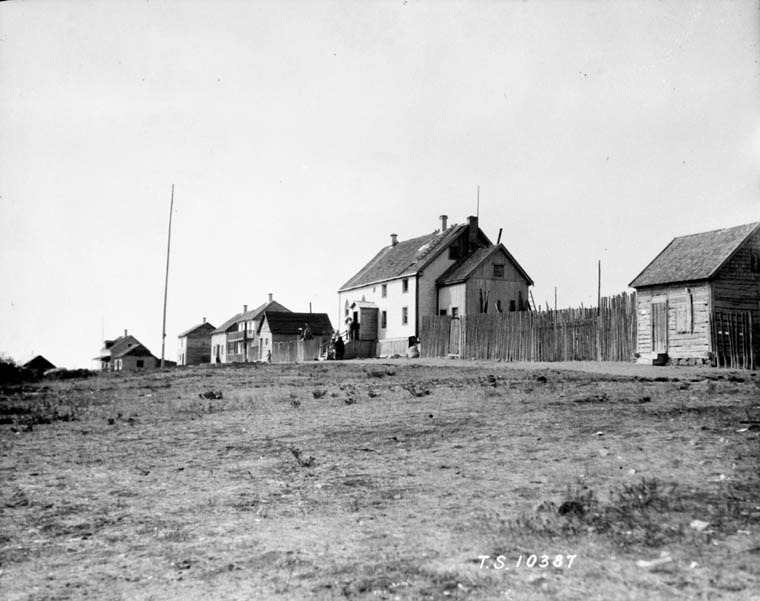 Fond du Lac Mission buildings in 1926. Taken by the Blanchet Survey expedition.